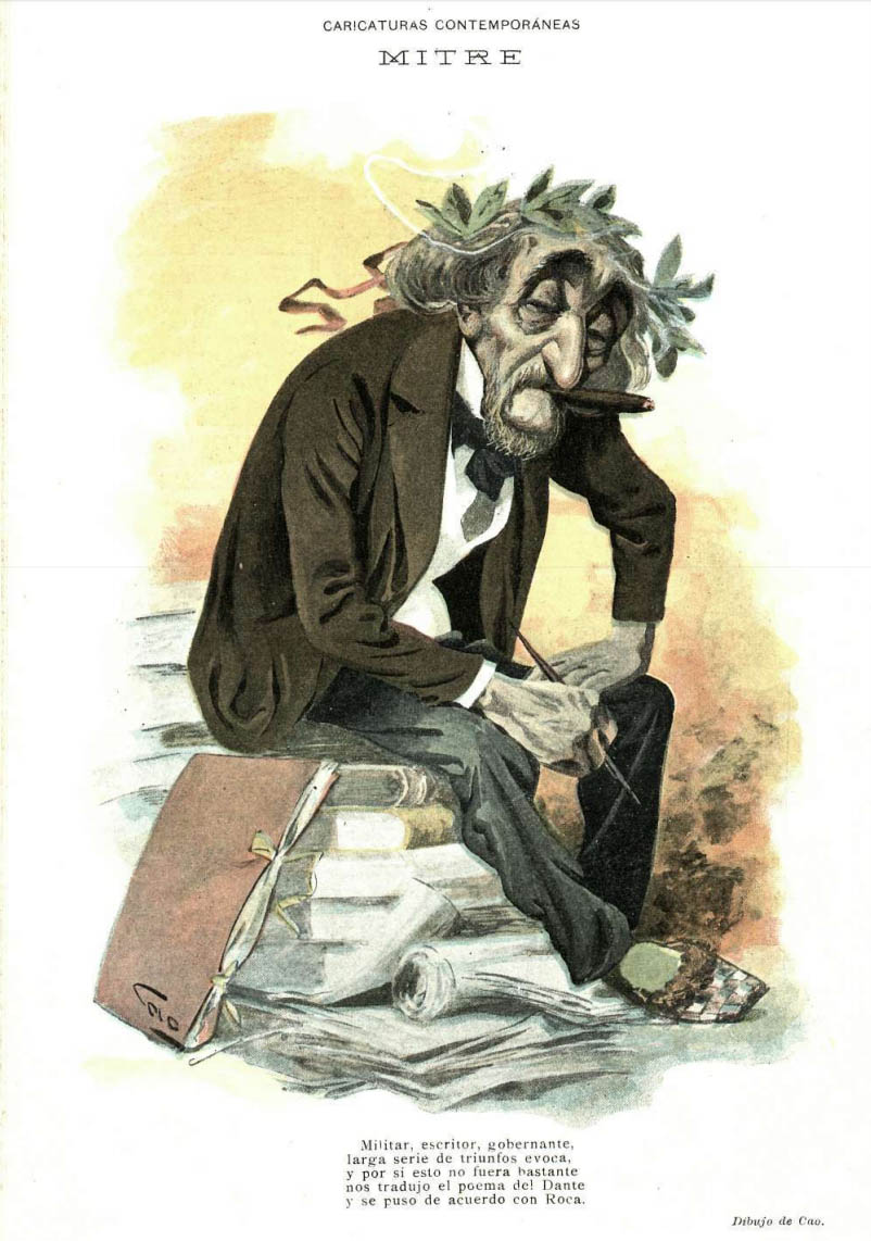 Bartolomé Mitre.